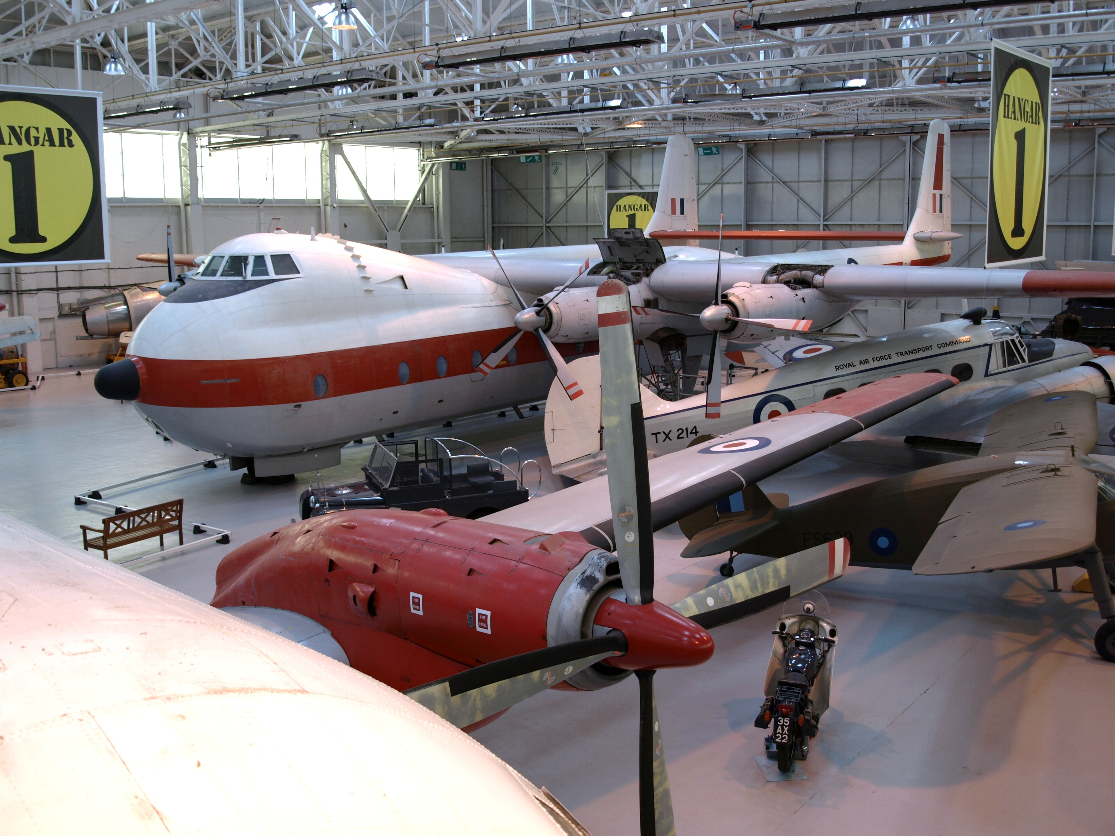 General view of the aircraft collection in Hangar 1 at the Royal Air Force Museum Cosford.